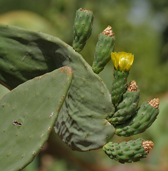 Indian Fig in Secunderabad, India.